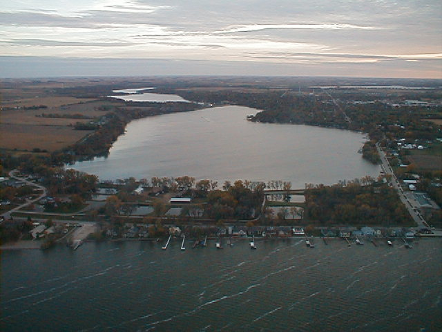 City of Spirit Lake looking south from over Spirit Lake towards the city on the west shore of East Okoboji Lake. Photograph taken on October 9, 2006.